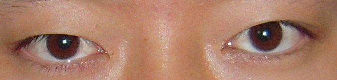 own work, gfdl